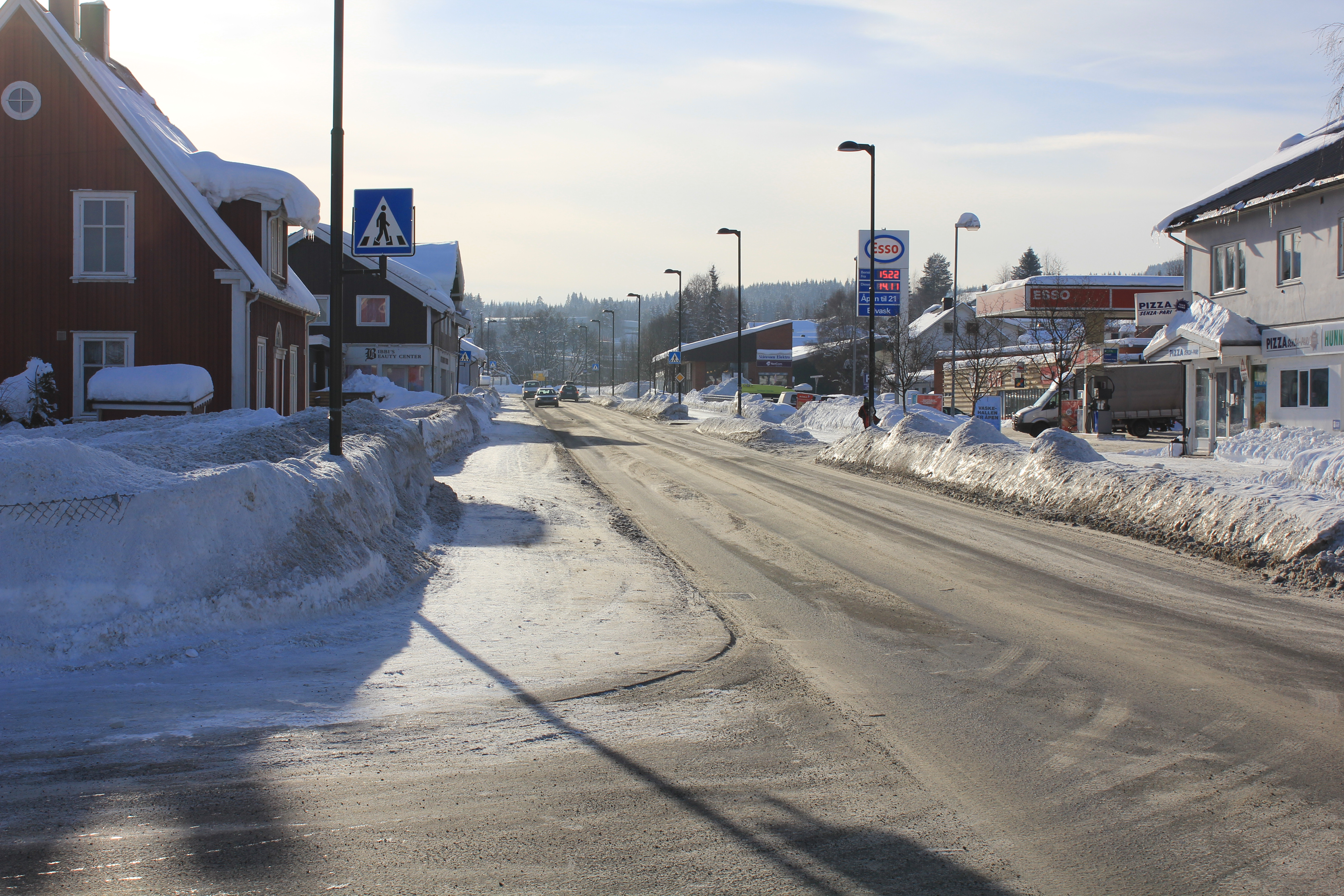 From Hunndalen by the small town Gjøvik, Norway.